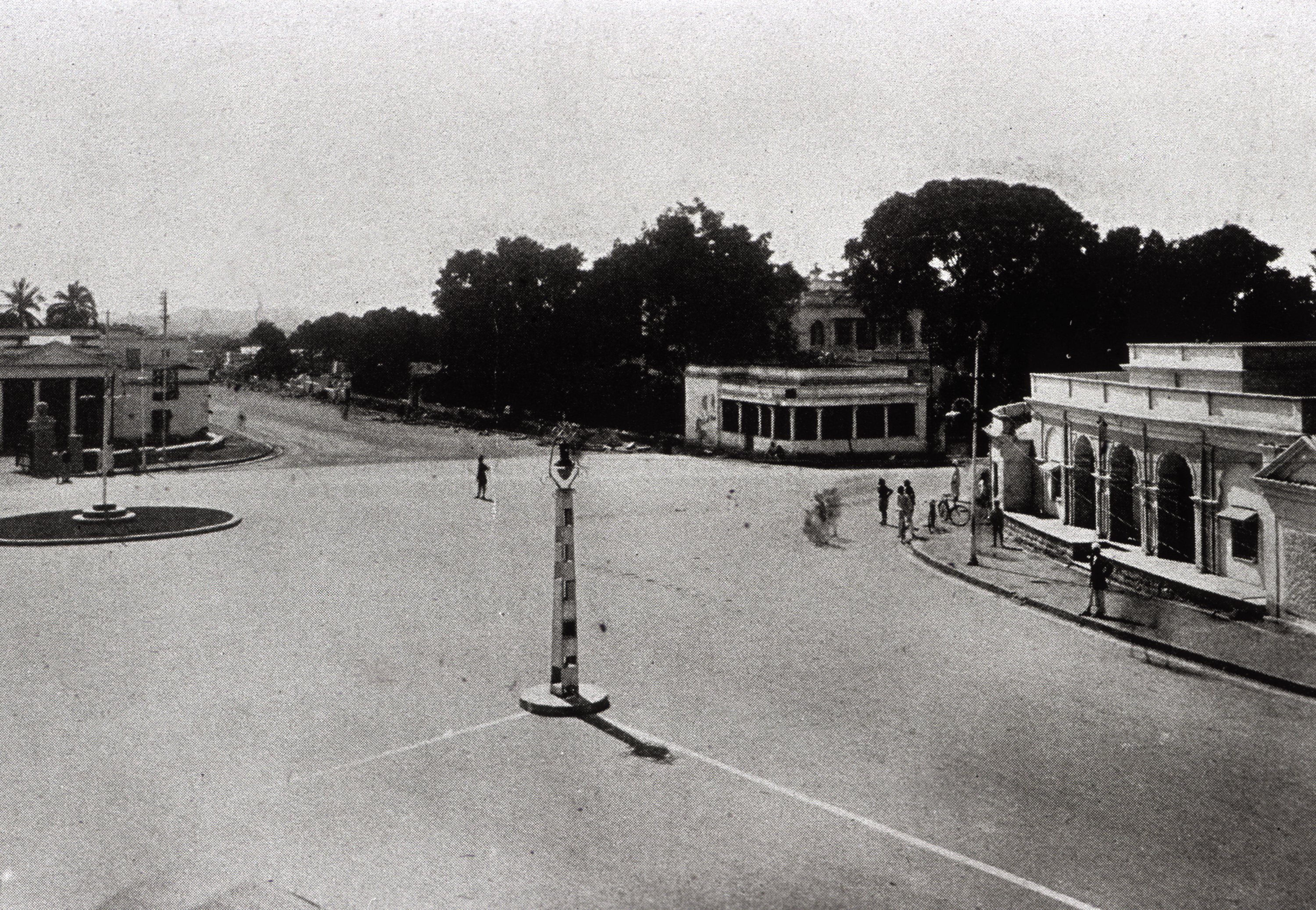 General view of Abids Circle in 1934. City Improvement Board Photo showing view from the south, with police station visible on right and the former state library on the left.